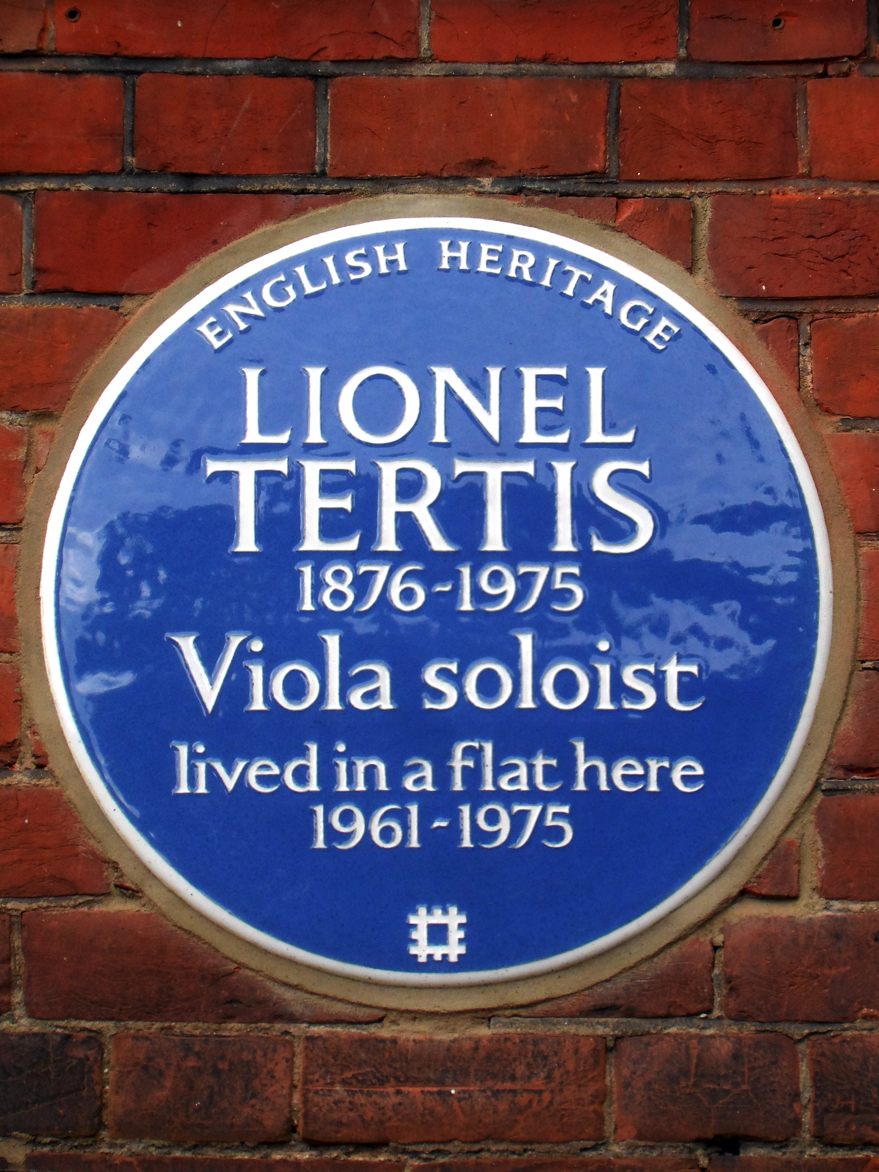 Blue plaque erected in 2015 by English Heritage at 42 Marryat Road, Wimbledon, London SW19 5BD